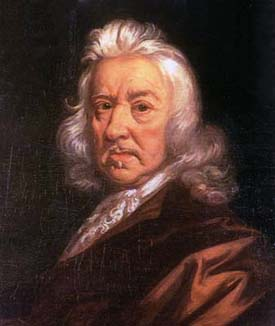 Thomas Hobbes (1588-1679)